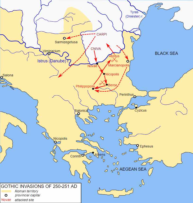 Battle Map for the Battle of Abritus